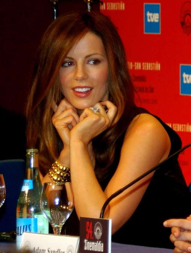 English actress Kate Beckinsale.